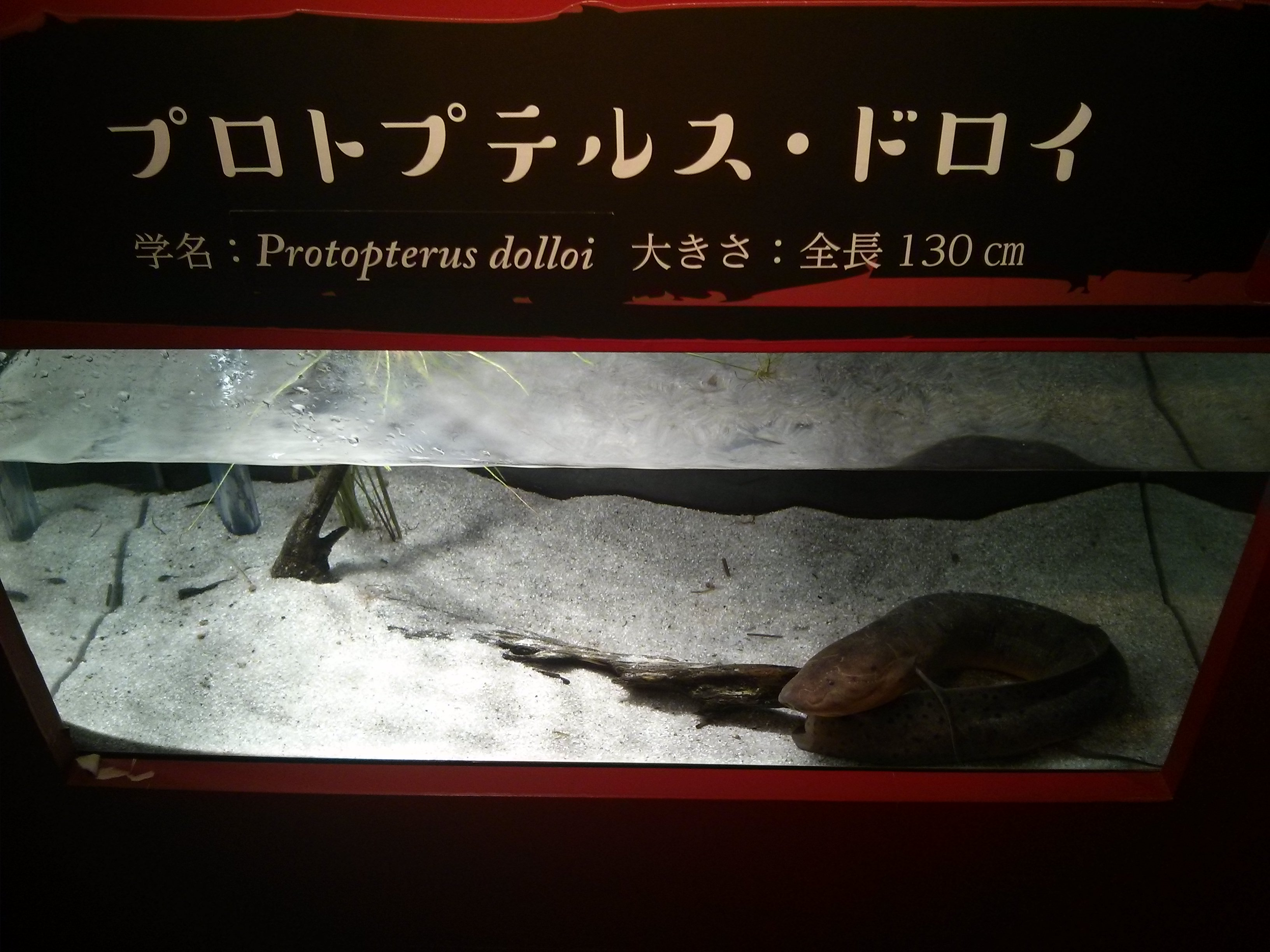 Protopterus dolloi in Aqua Toto Gifu